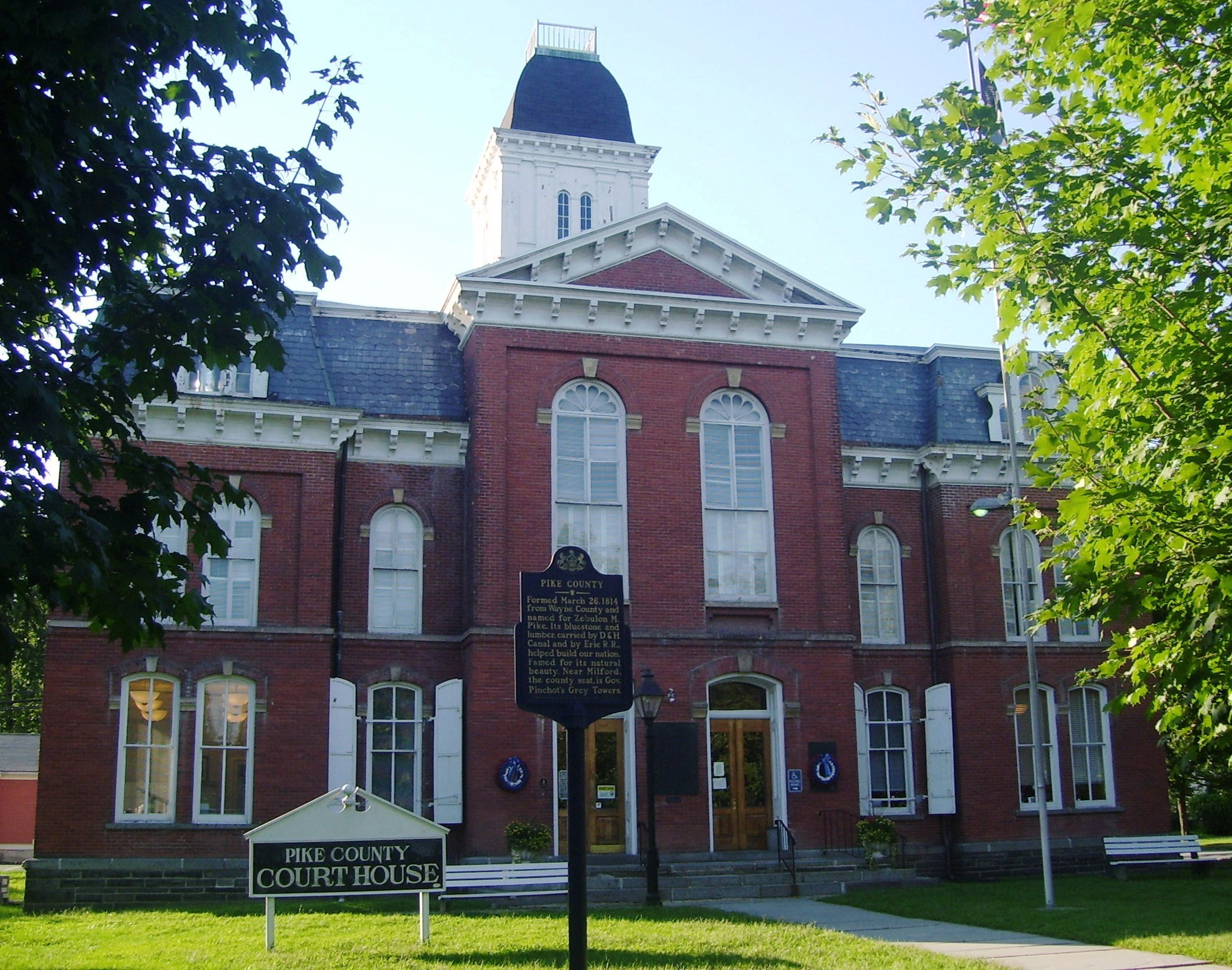 The Pike County Courthouse in Milford, Pennsylvania was completed in 1874 and was added to the National Register of Historic Places on July 23, 1979. It is located within the Milford Historic District. (Source: [1])